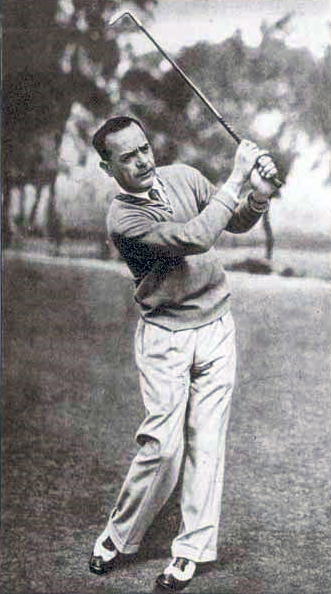 The Argentinian golfer, José Jurado.